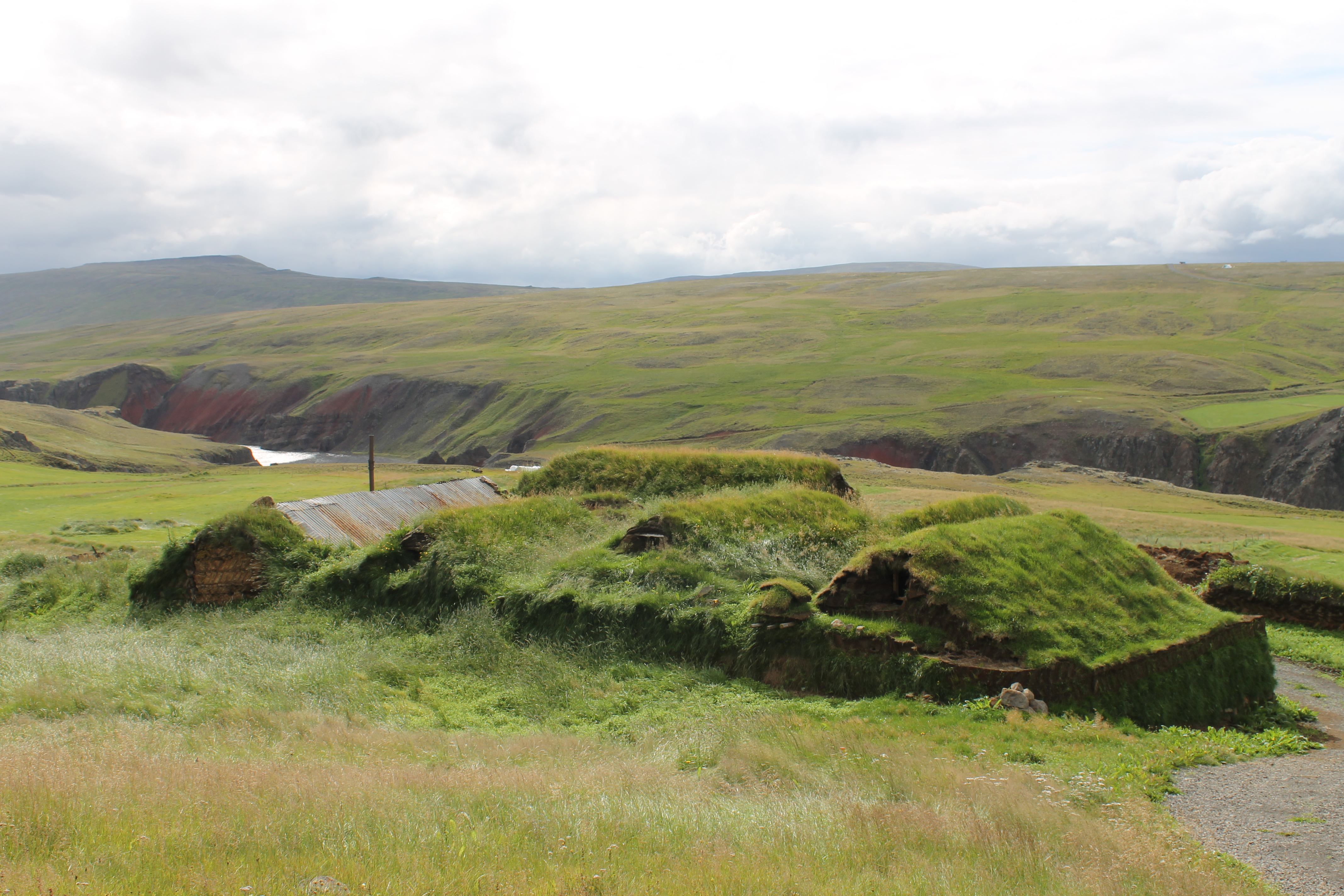 Rear side of old farmhouse at Tyrfingsstaðir, Skagafjörður, Northern Iceland.